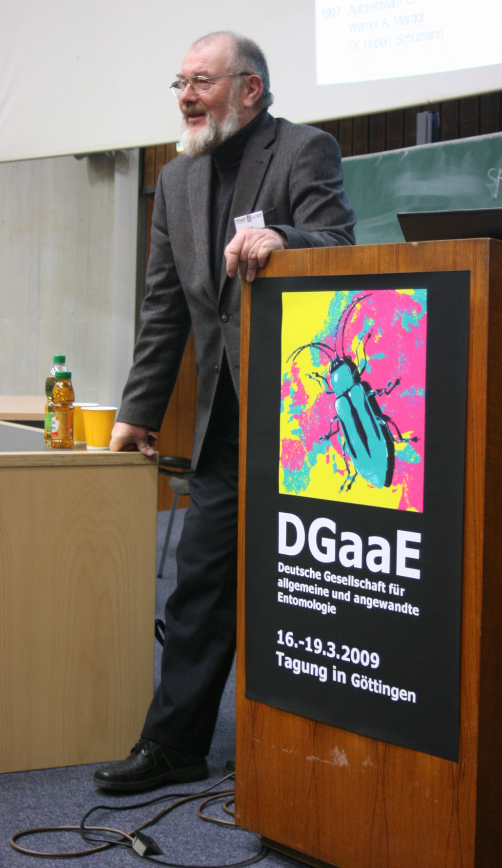 Gerd Müller-Motzfeld 2009 at the Congress of the German Society of Entomology in Göttingen